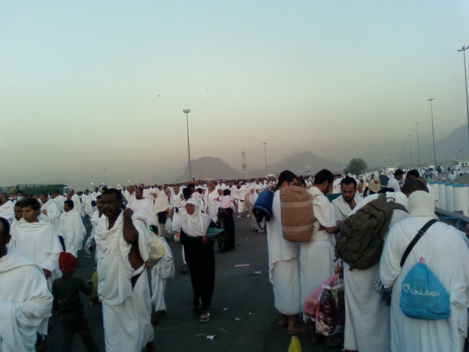 To arafa